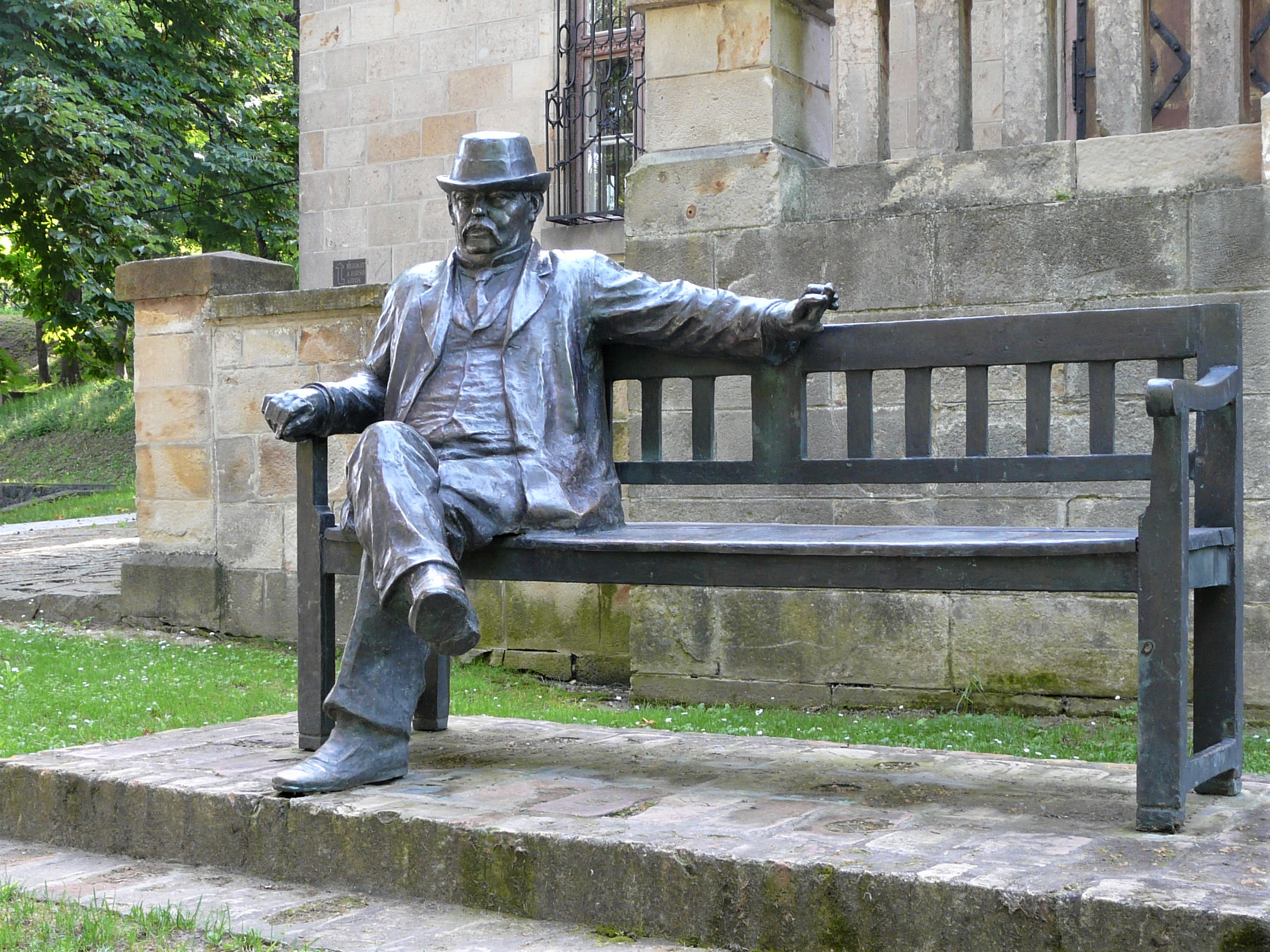 Sculpture of Kálmán Mikszáth in Horpács, Hungary